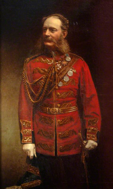 Portrait of General Sir Charles William Adair, KCB